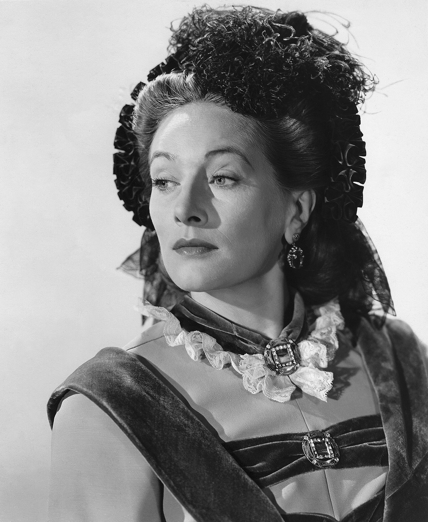 Tala Birell in The Song of Bernadette (1943) - publicity still